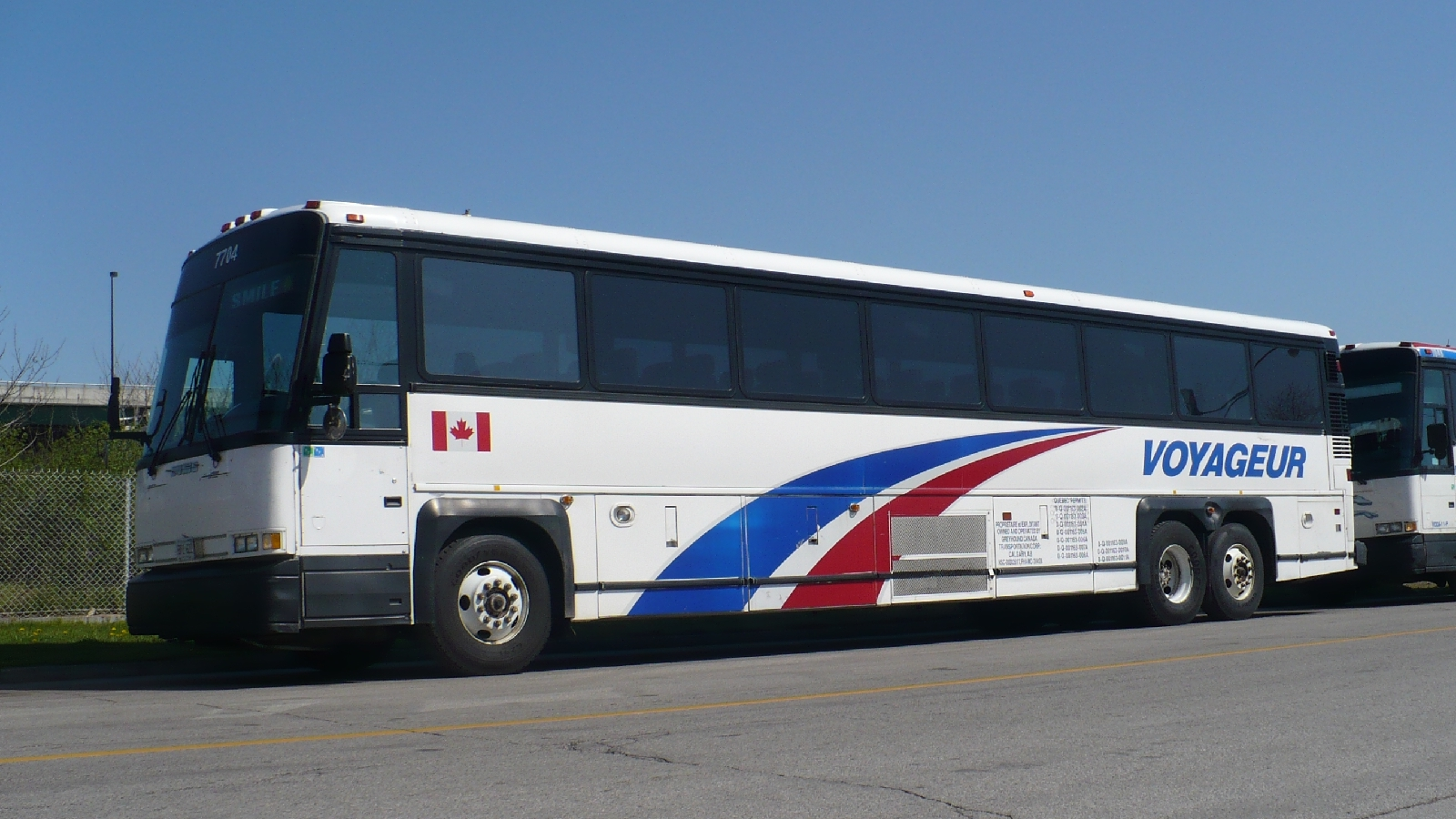 Voyageur bus in Greyhound livery